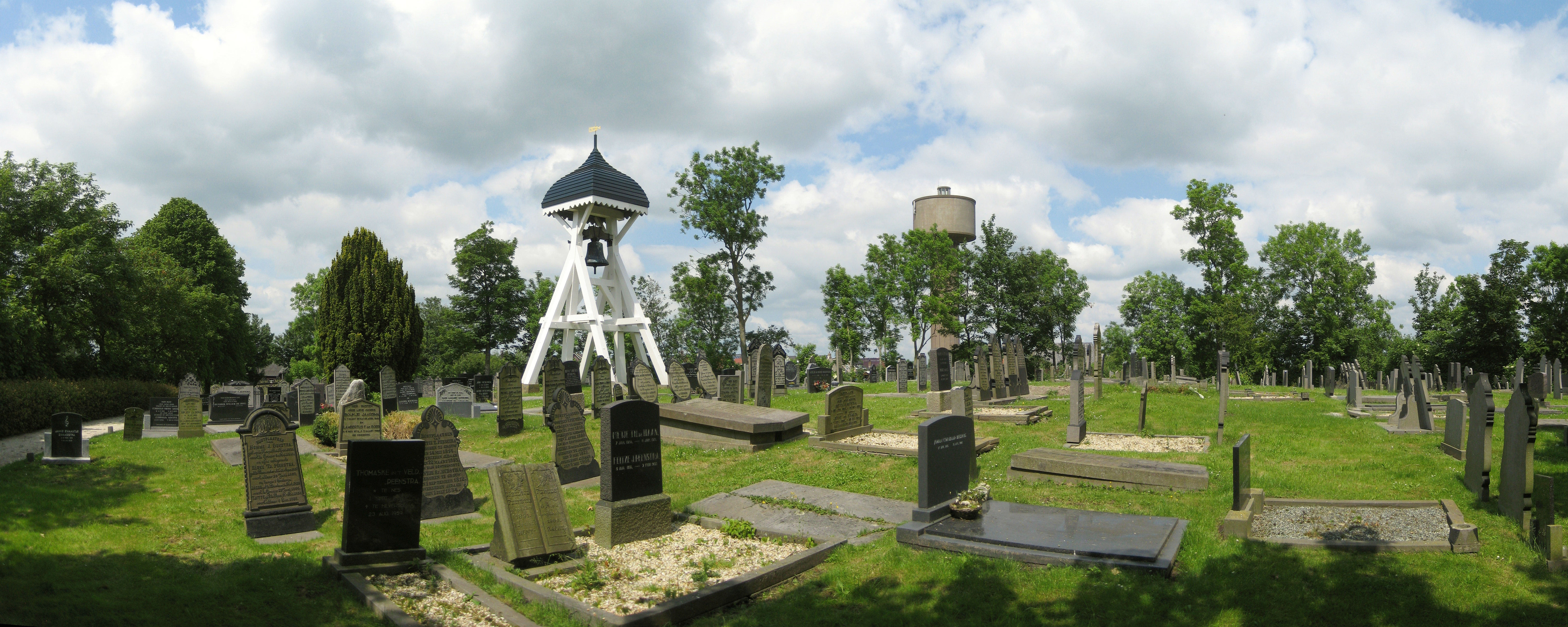 The churchyard and wooden bell tower of Nes, a village near Akkrum in the Dutch province of Fryslân.